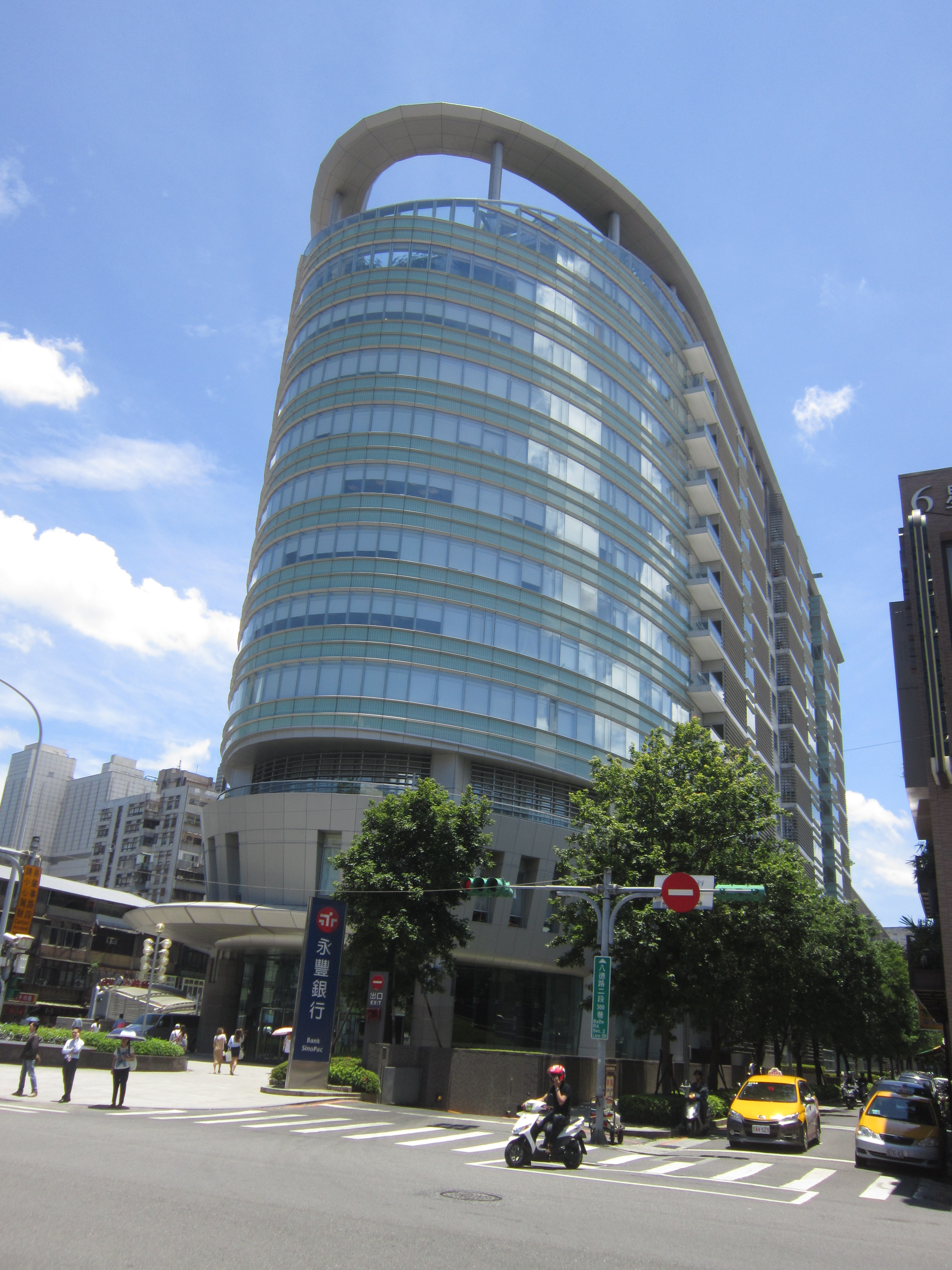 Headquarters of SinoPac Holdings. 中文（台灣）: 由原台汽中崙站改建而成的永豐金控總部大樓